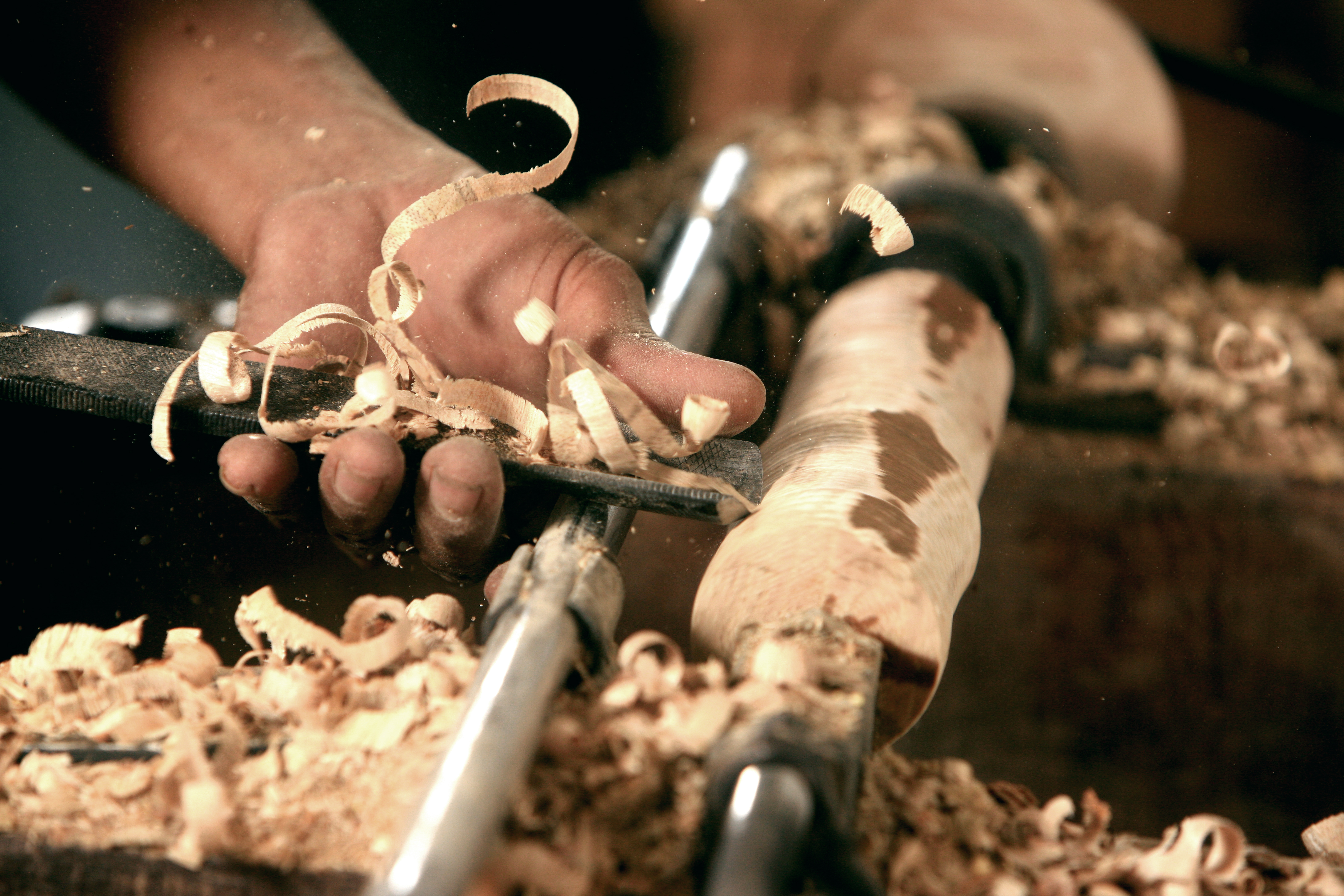 Woodturning in Indonesia